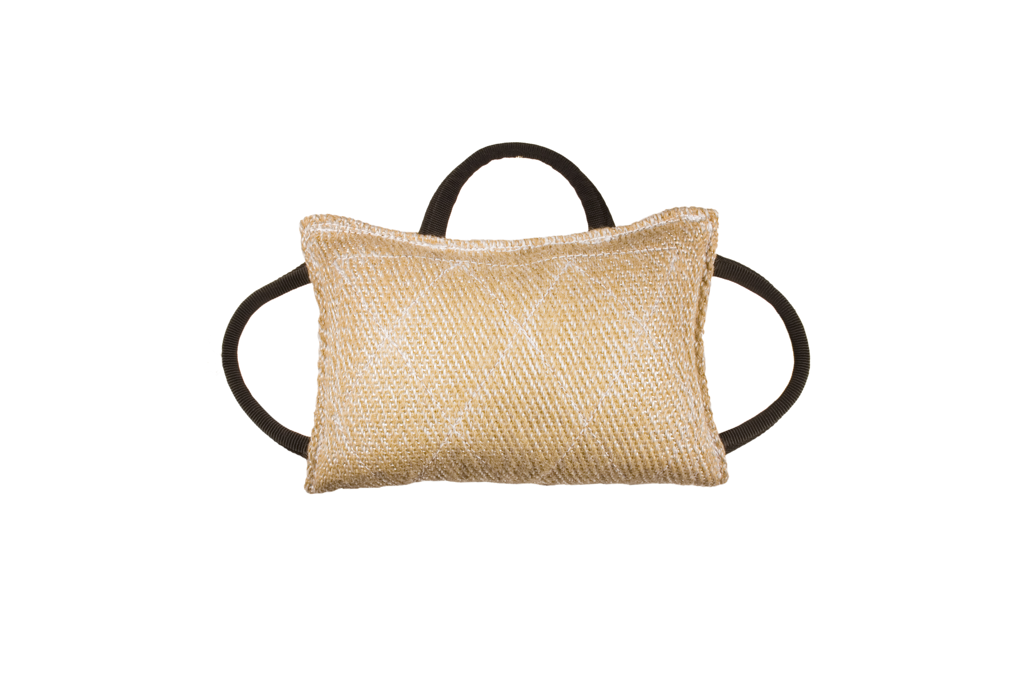 Dog bite pad made of jute with 3 handles designed for puppy and adult dog training